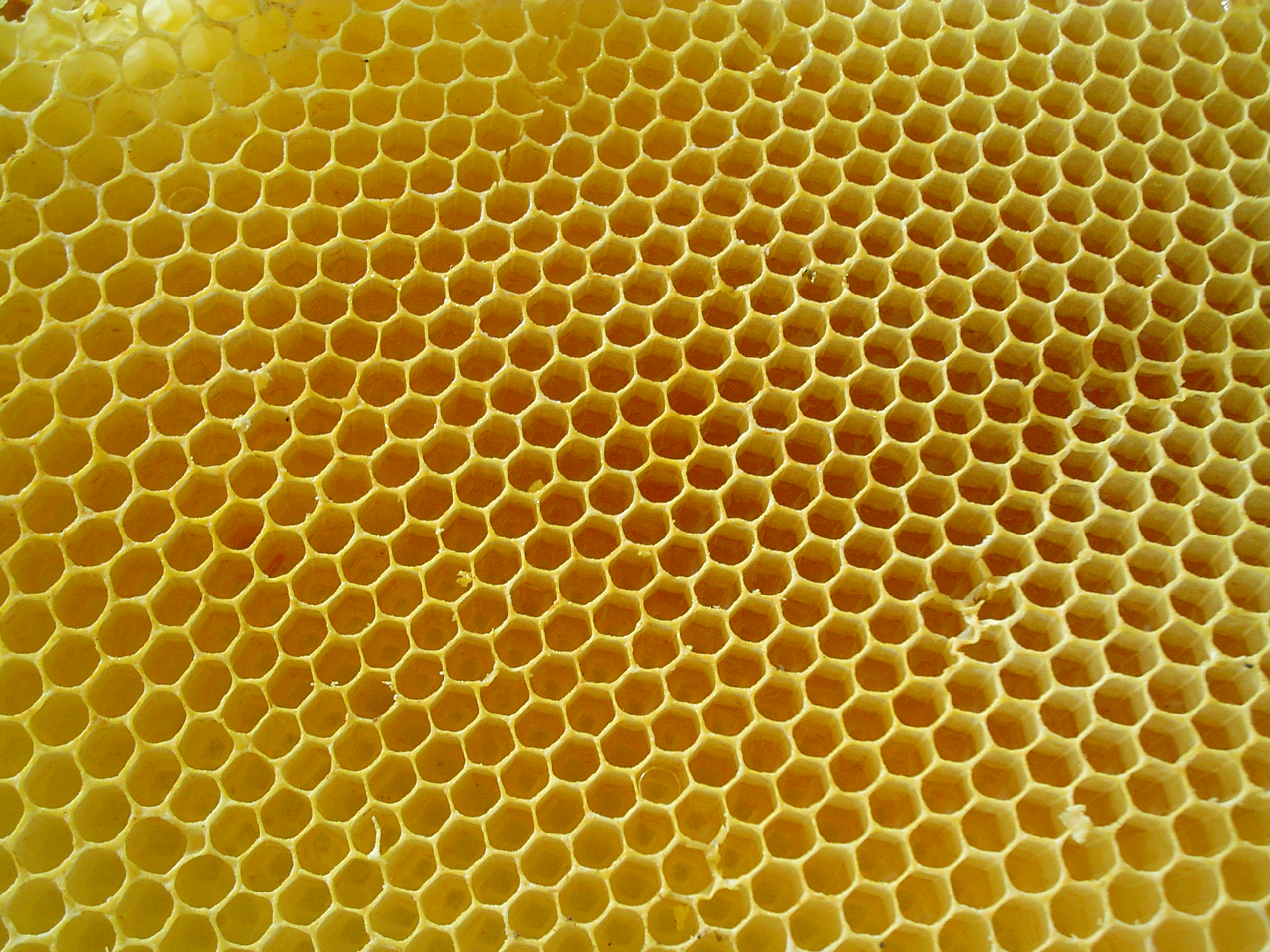 Honeycombs made of wax and full of honey, builded by black bees (Apis mellifera mellifera).